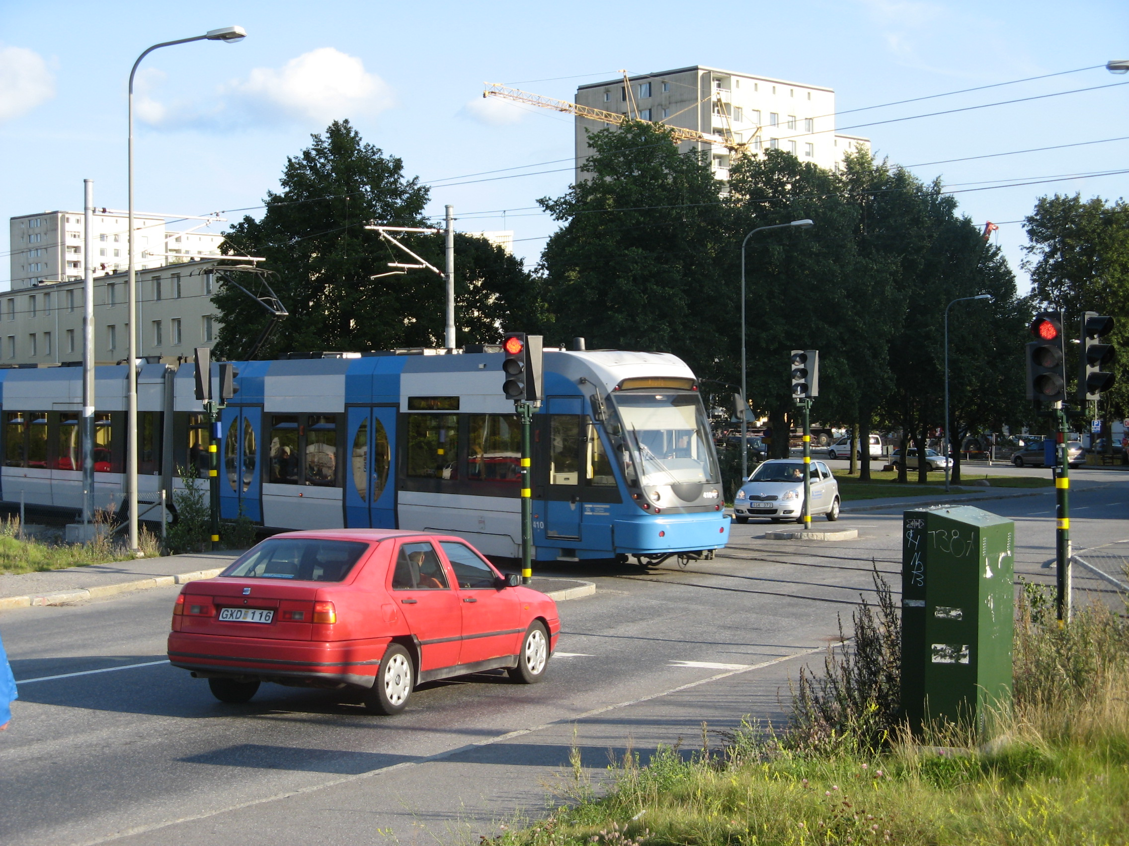 Tramway crossing Sandfjärdsgatan on line L22, Årsta, Stockholm, Sweden.